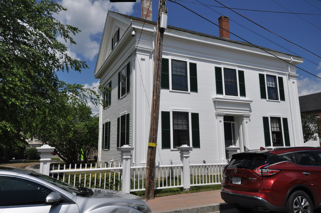 Farnsworth Homestead, Rockland, Maine.